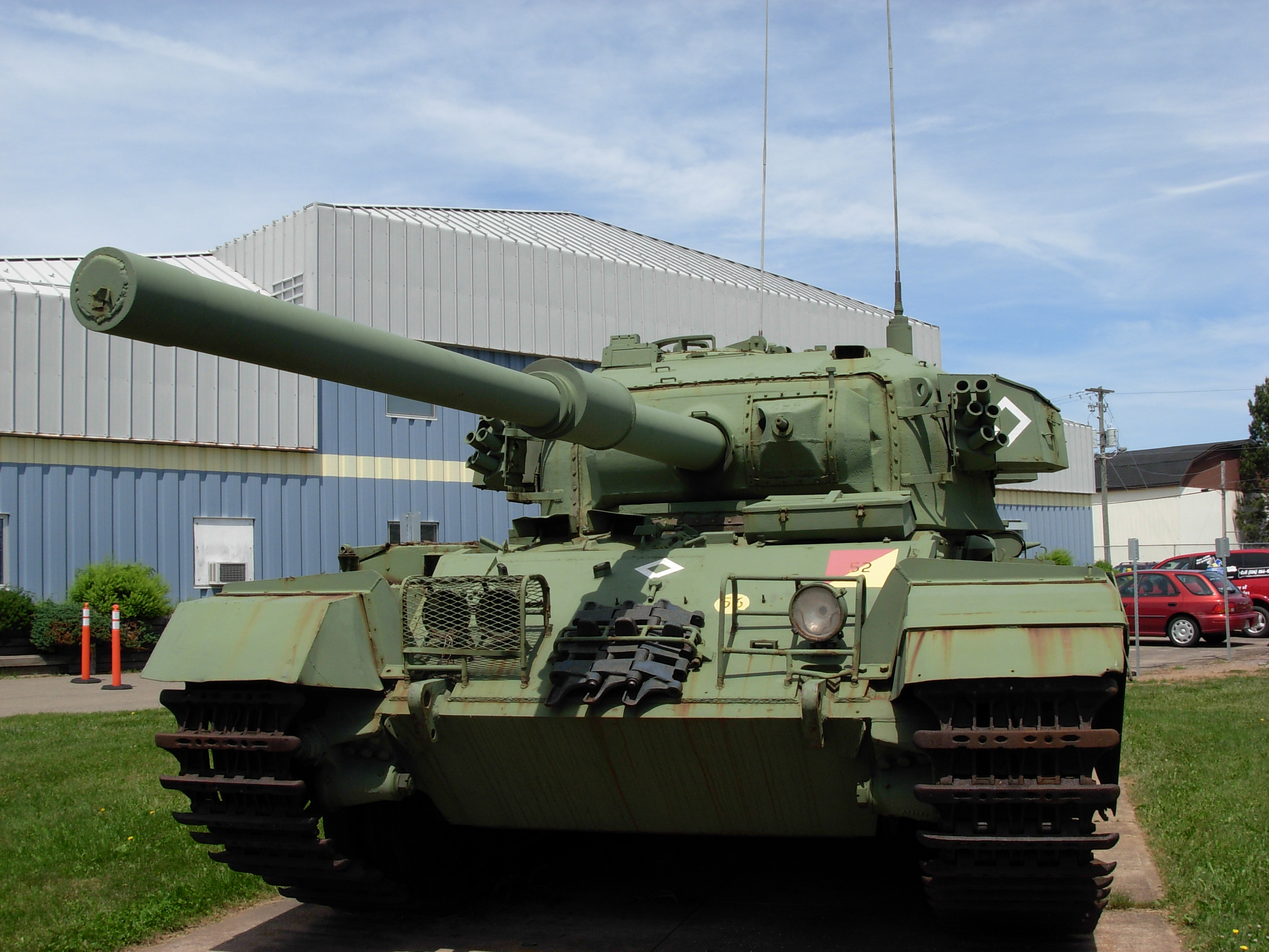 A tank in Moncton